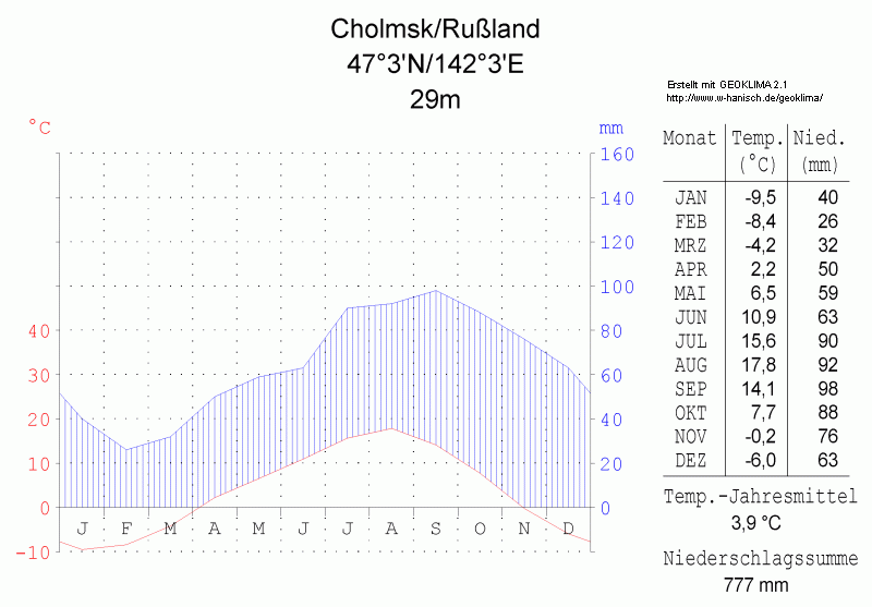 climate chart in the format by Walther and Lieth, metric, °Celsisus and millimeters, made with Geoklima 2.1